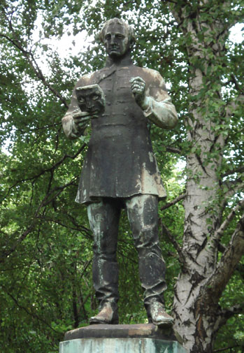 Statue – Sándor Várady: Gábor Egressy, hungarian actor. Miskolc, Hungary